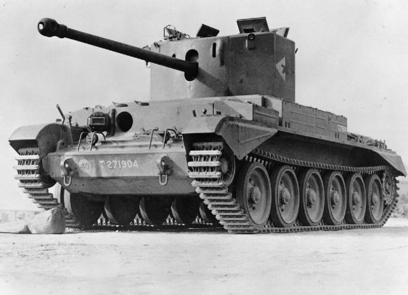 Tanks and Afvs of the British Army 1939-45 Cruiser tank Challenger (A30)